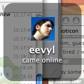 Screenshot of a Growl notification, using the Bezel display. The notification was posted by Adium. Category:Screenshots of Mac software